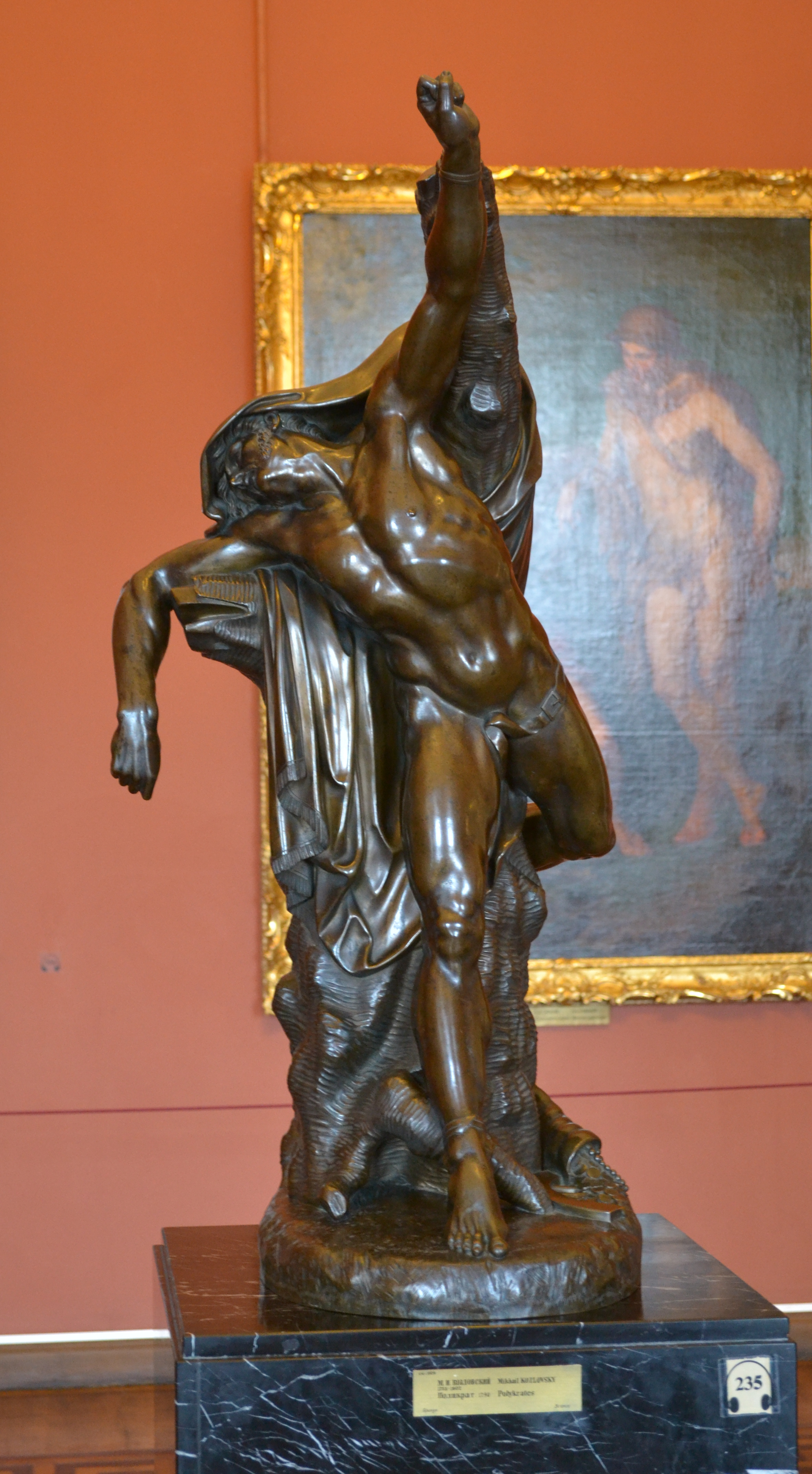 Mikhail I. Kozlovsky Polykrates 1790 Bronze Sculpture in Russian Museum